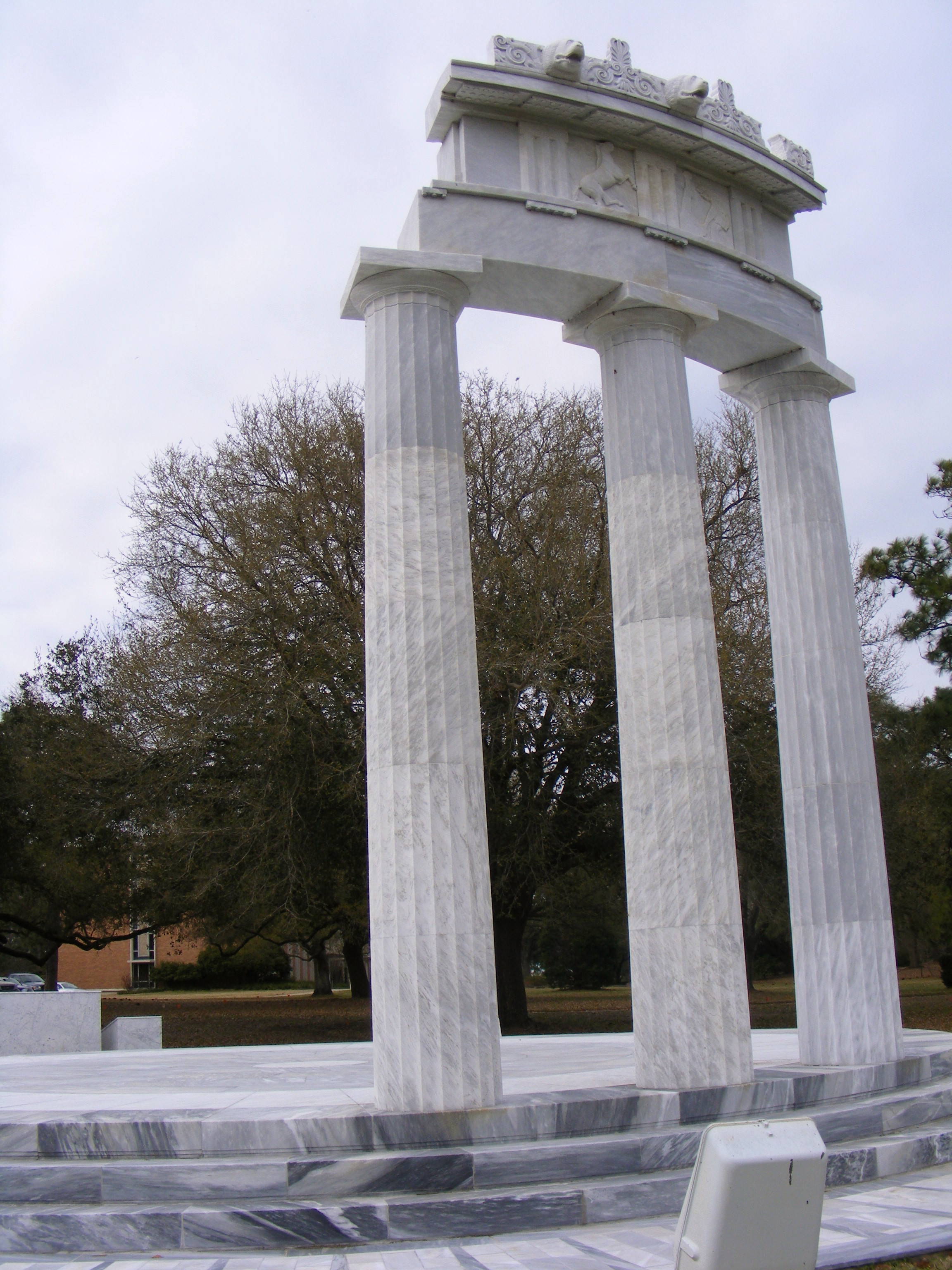 Greek Monument on USA's Campus